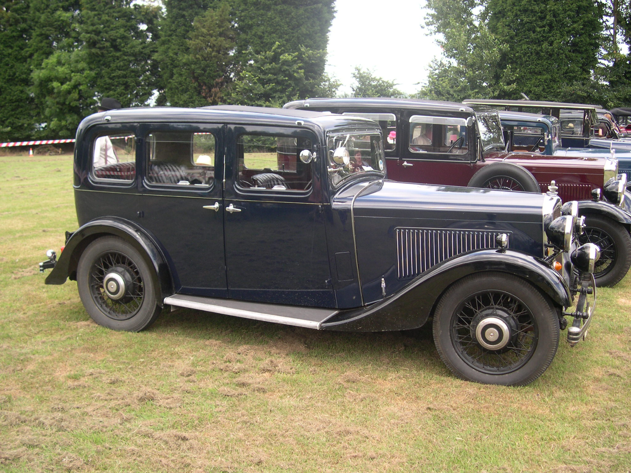 1934 Morris Cowley Six Saloon